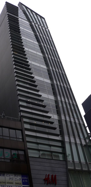 H&M Ginza Store in Ginza, Chuo, Tokyo, Japan.